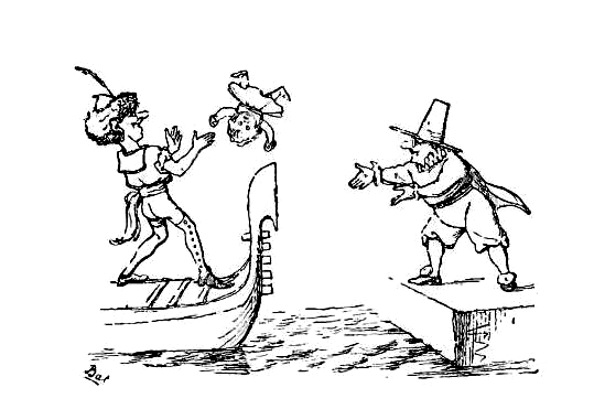 cleaner version; see Category:Songs of a Savoyard for other version(s)